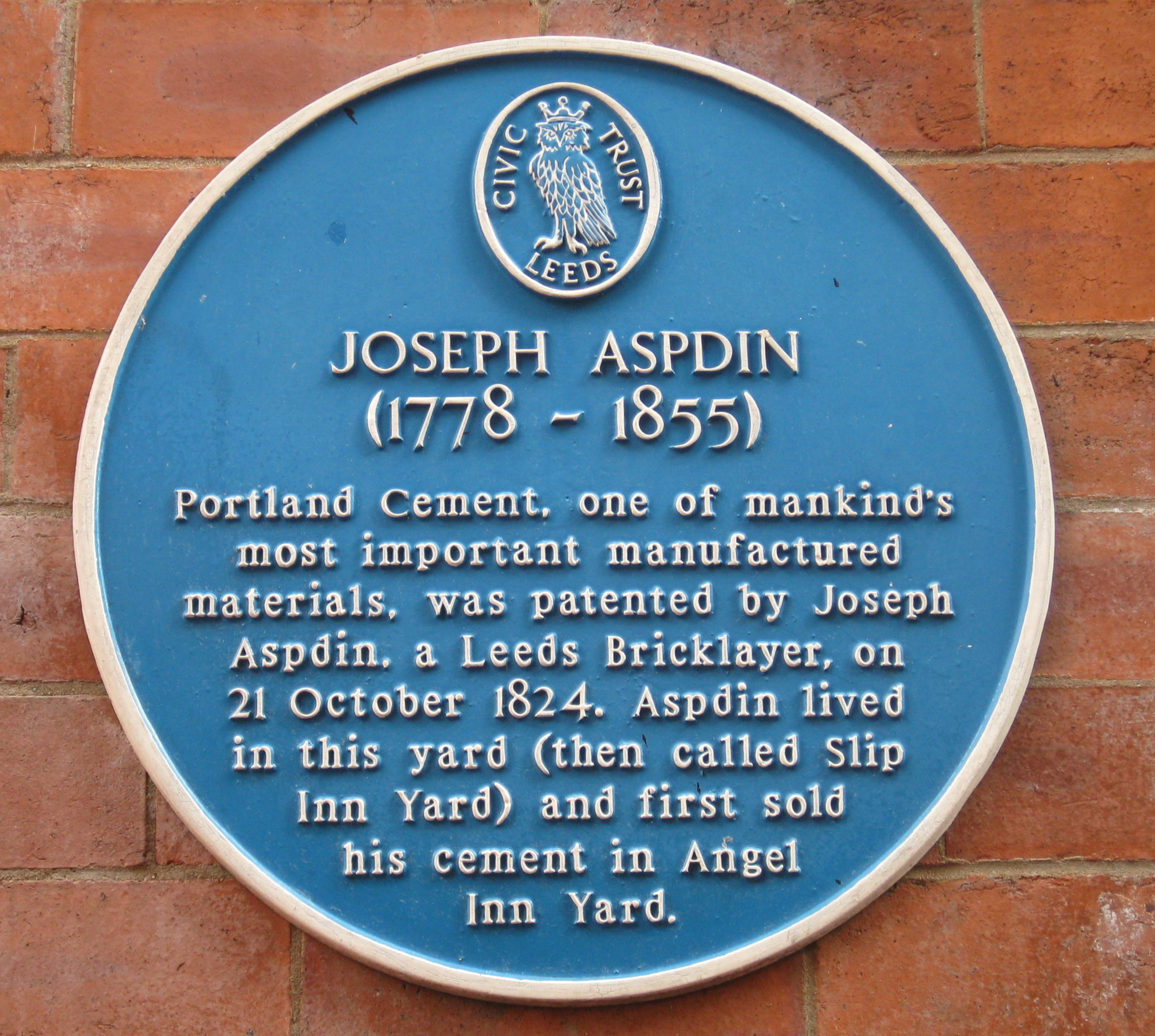 Blue plaque by Packhorse Yard (between Lands Lane and Briggate), Leeds, about Joseph Aspdin.